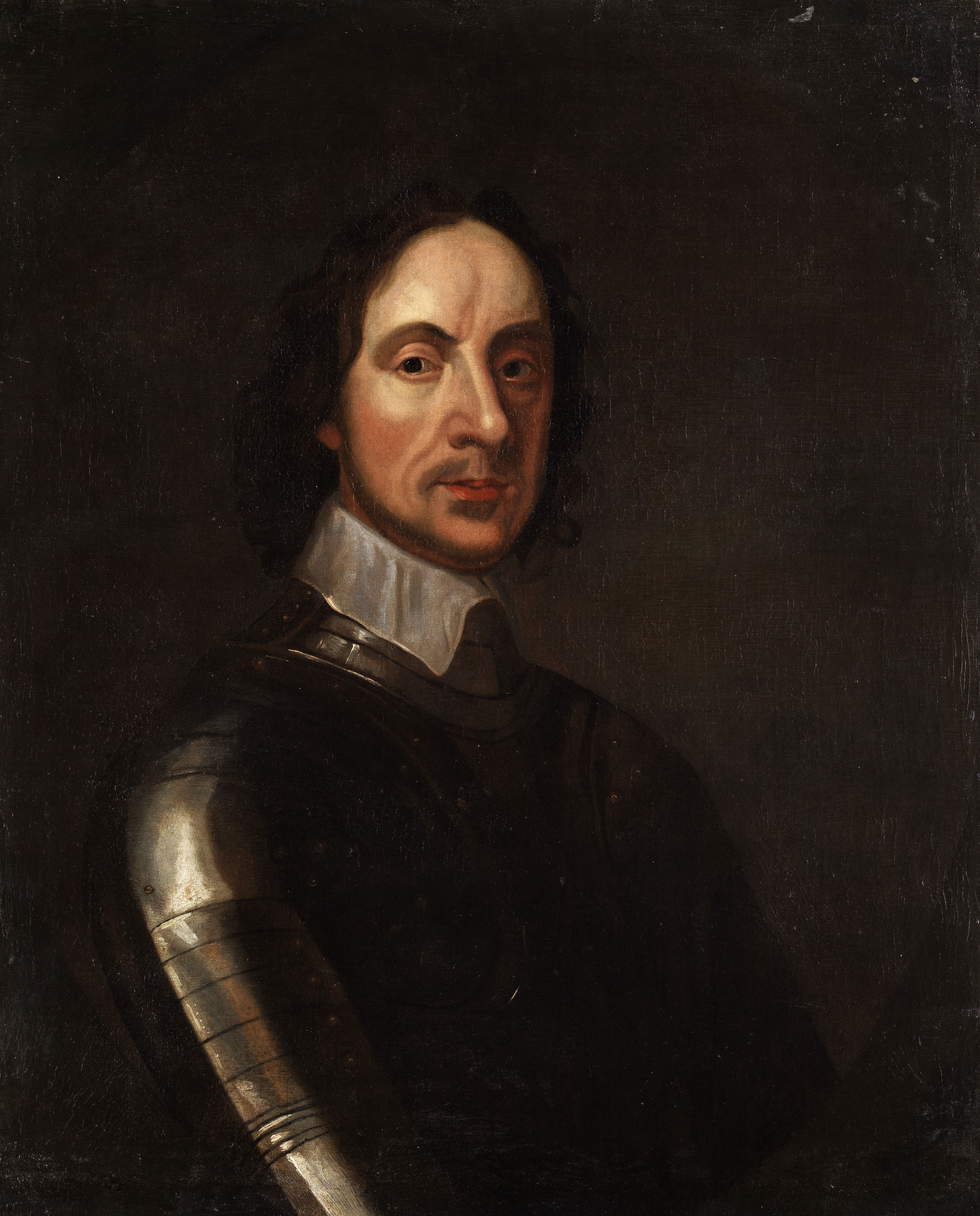 Oliver Cromwell